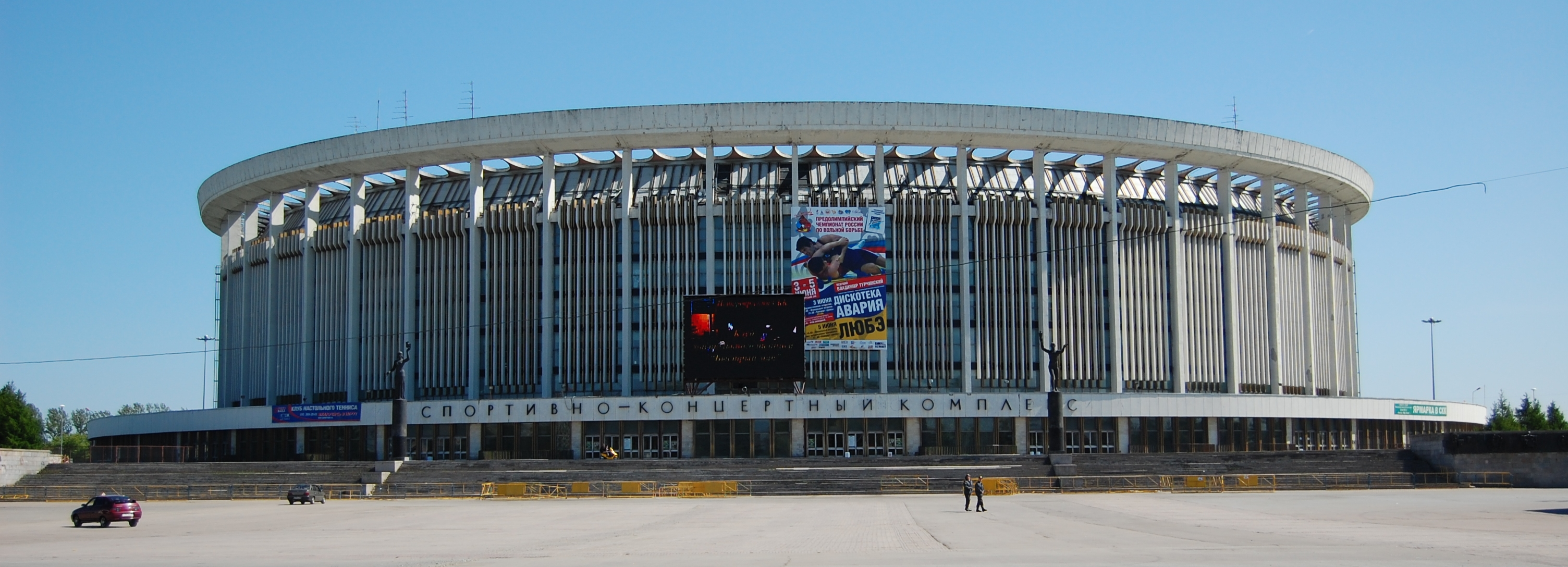 Saint Petersburg Sports and Concert Complex. Front (Main Entrance) view